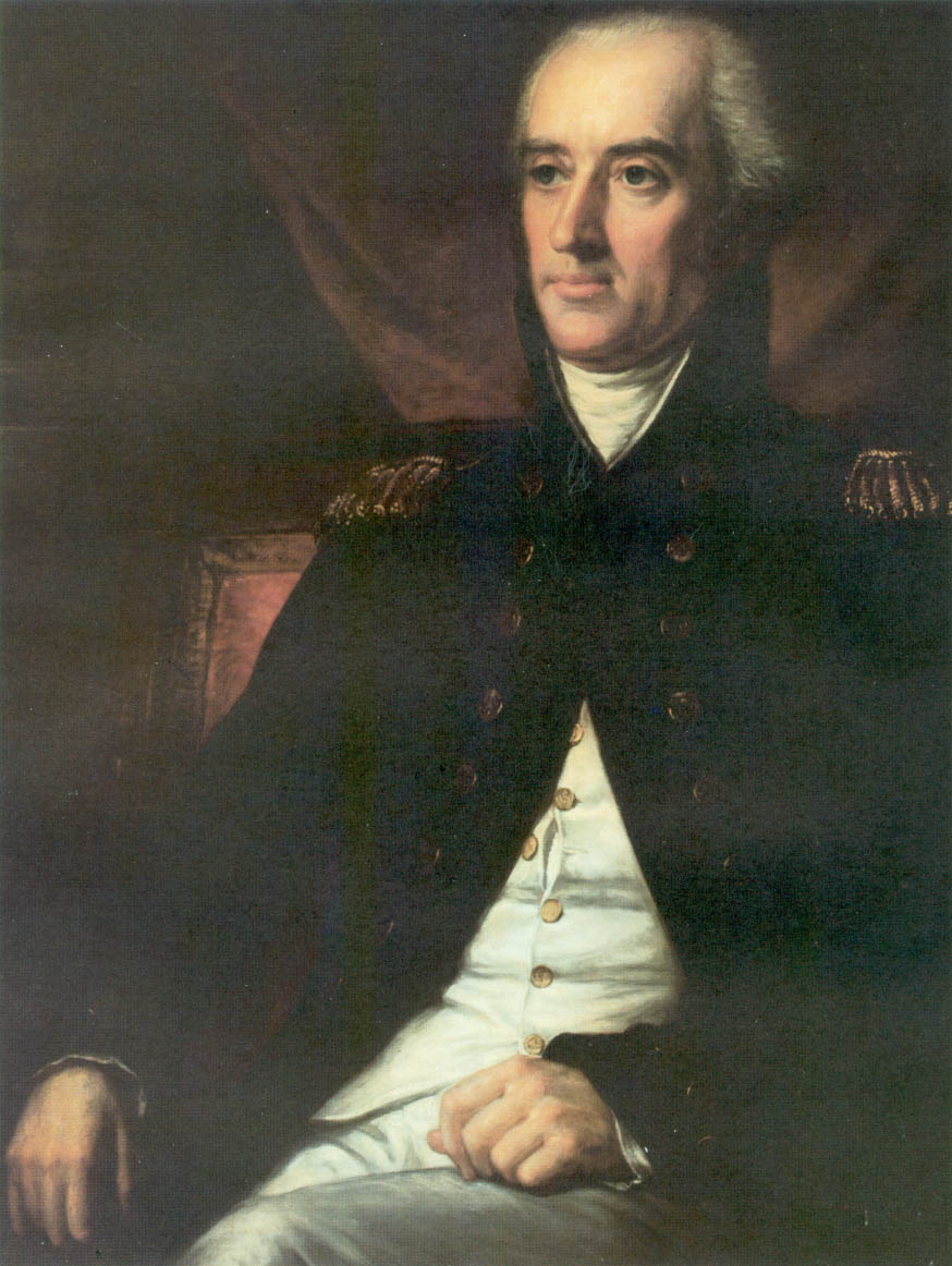 John Armstrong, Jr. (1758–1843), American soldier and statesman who was a delegate to the Continental Congress, U.S. Senator from New York, and Secretary of War.